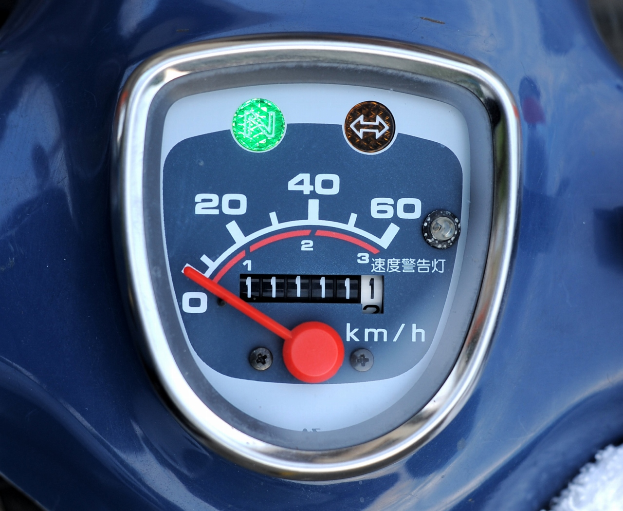 Honda AA01 Super Cub (2000) instruments